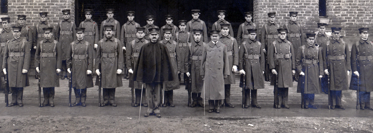 Troop B, Washington Cavalry, Washington National Guard, c 1905 Other information Per disclaimer on website: "Unless specifically stated, images from our photo collections are copyright-free, as are the rest of our images and audio."